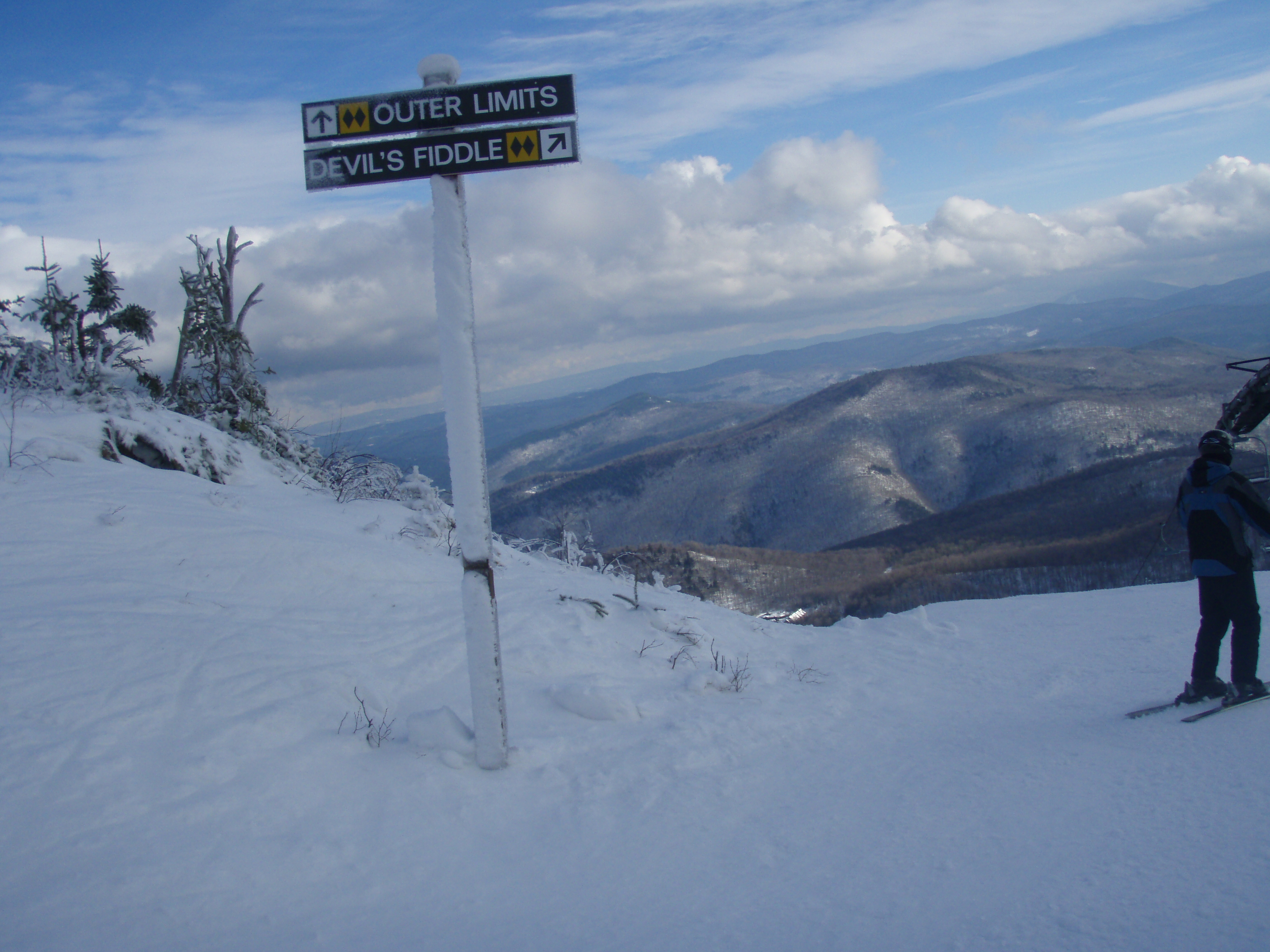 Trail signs at Killington that leads people to the two double black diamond trails, Outer Limits and Devil's Fiddle, the two steepest trails in Killington.